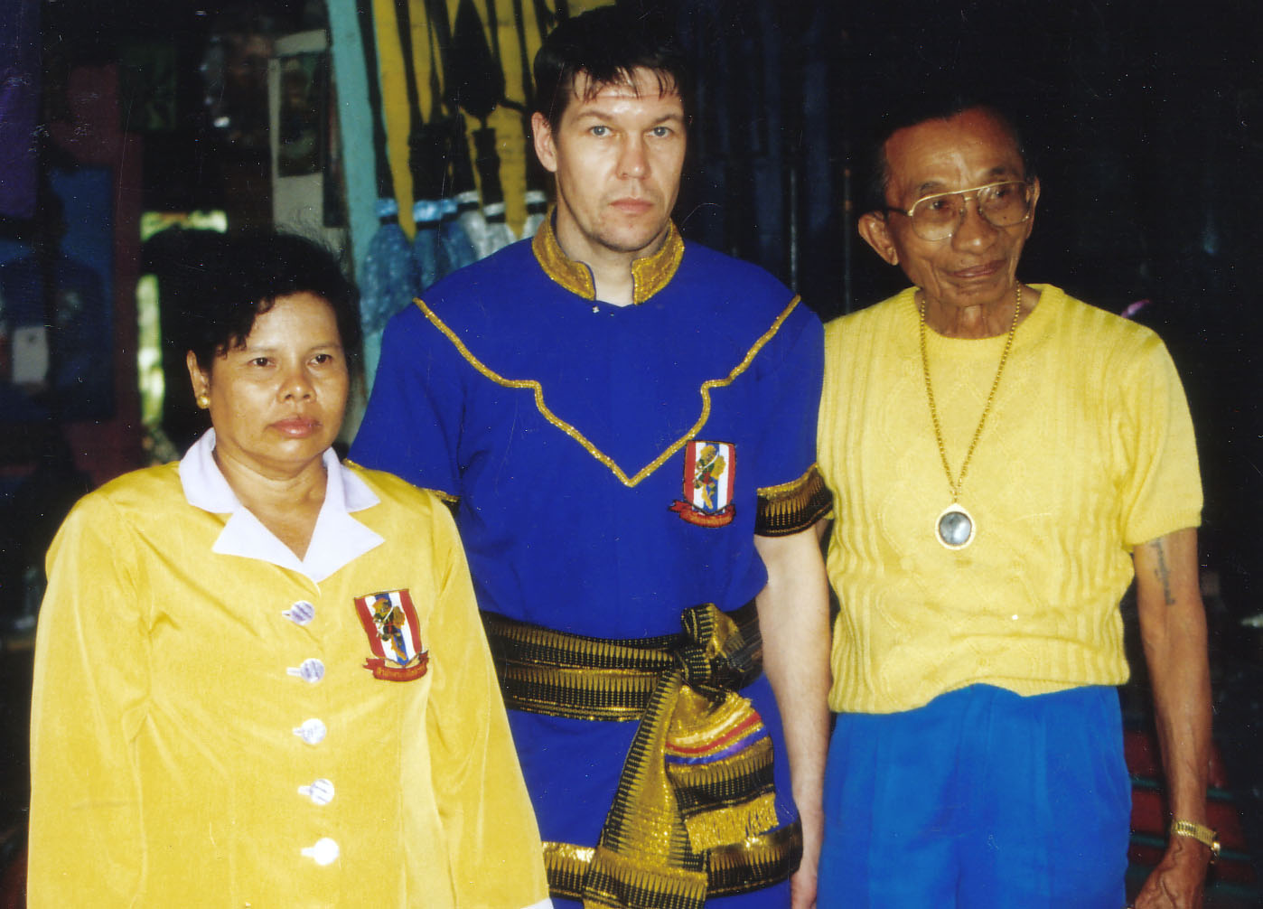 Por Kru Samai, Mae Kru and student Kru Tony Moore at the old Buddhai Swan, Bangkok, Thailand.